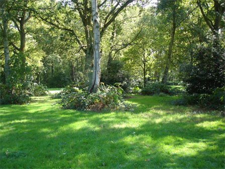 A typical scene on Chorleywood Common